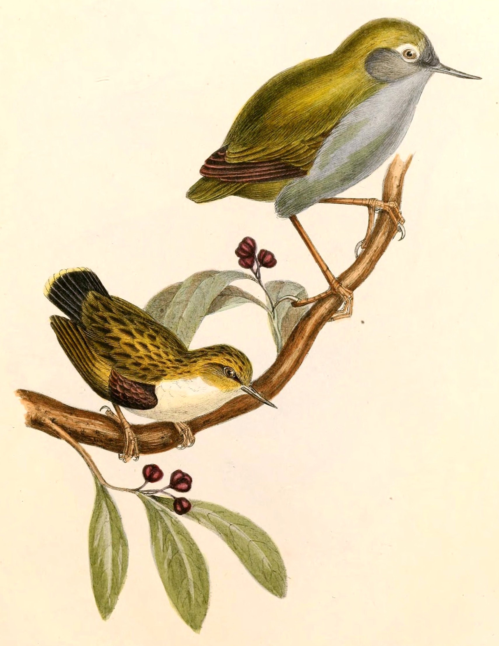 « Acanthisitta longipes » = Xenicus longipes (Bushwren) « Acanthisitta chloris » = Acanthisitta chloris (Rifleman) - female